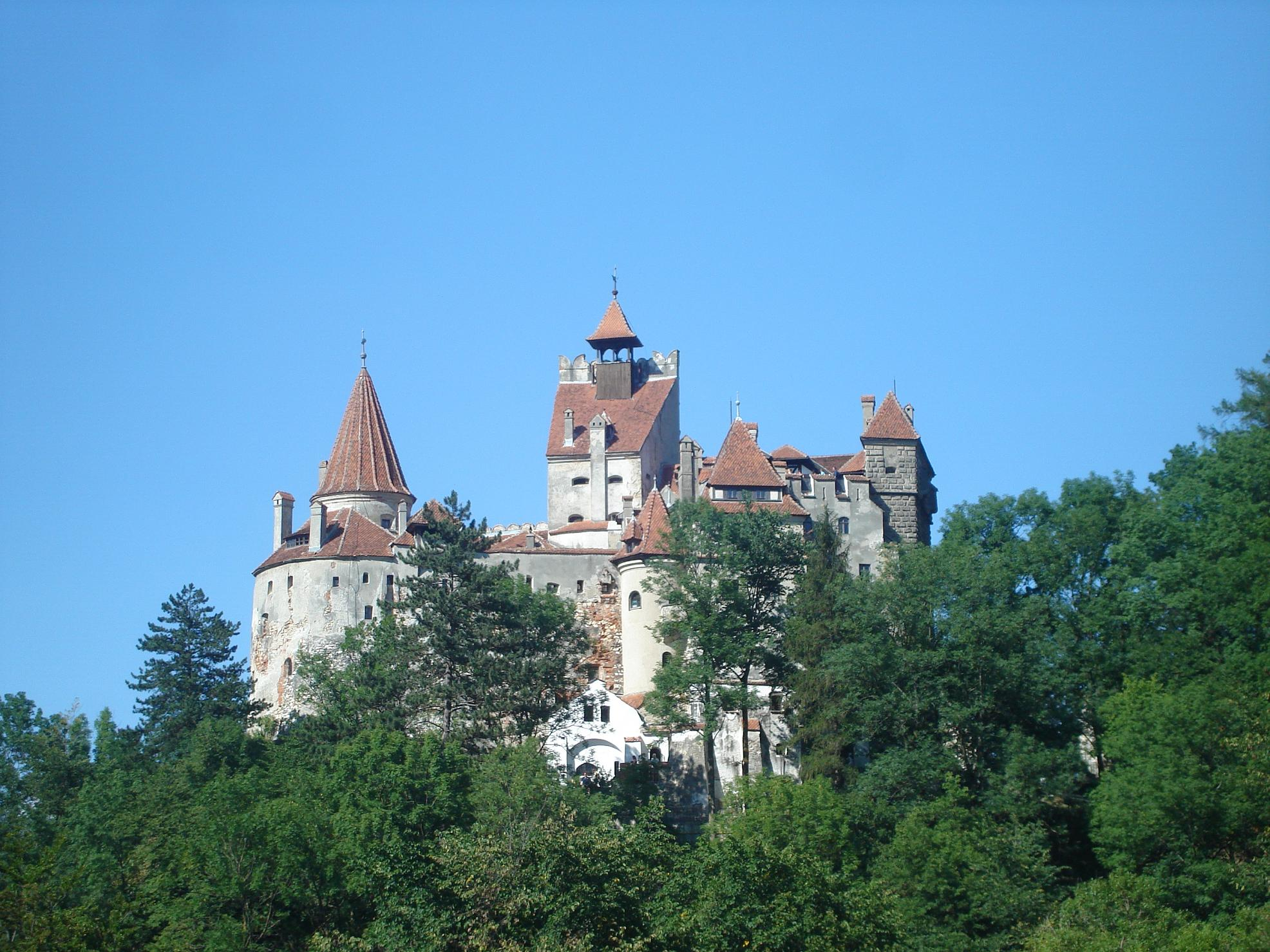 Bran Castle aka Dracula's Castle, Bran, Romania.